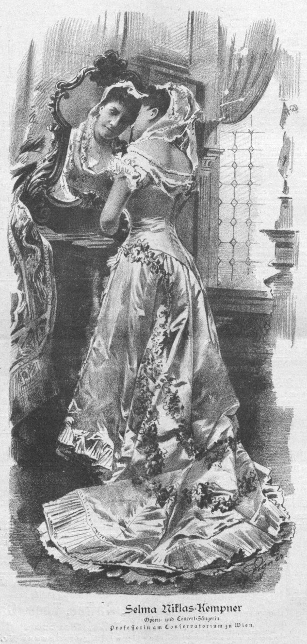 Portrait of Selma Nicklass-Kempner (1850-1928), Austrian opera singer.